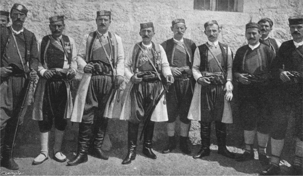 Montengrin officers in gala costume